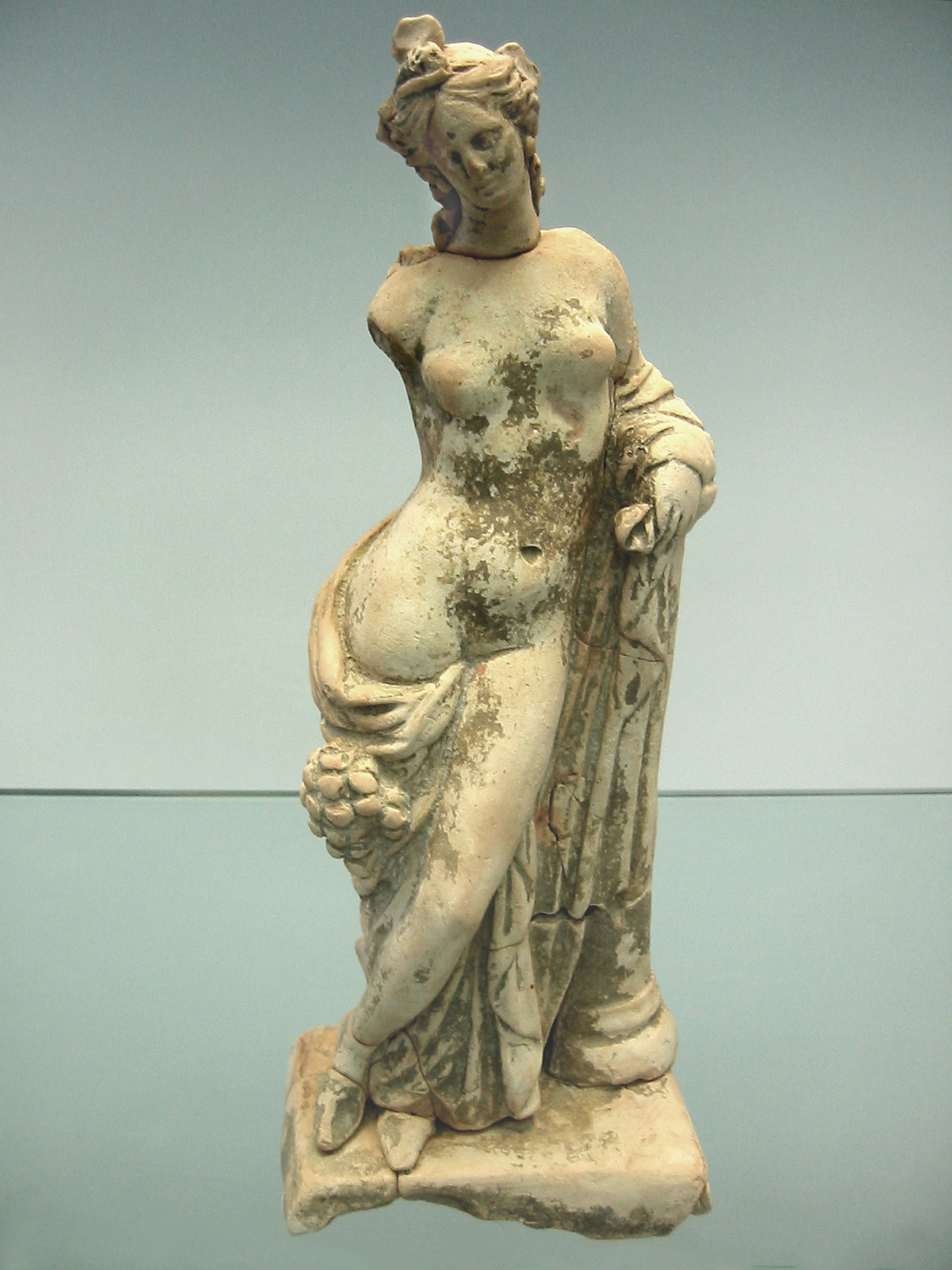 Female statuette from ancient Magna Graecia city Kroton. Now on display in the Museo Archeologico at Crotone in Calabria, Italy.